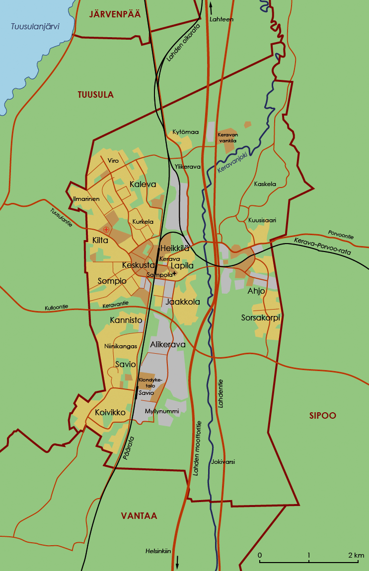 Map of the city of Kerava, Finland. Made by Ville Koistinen